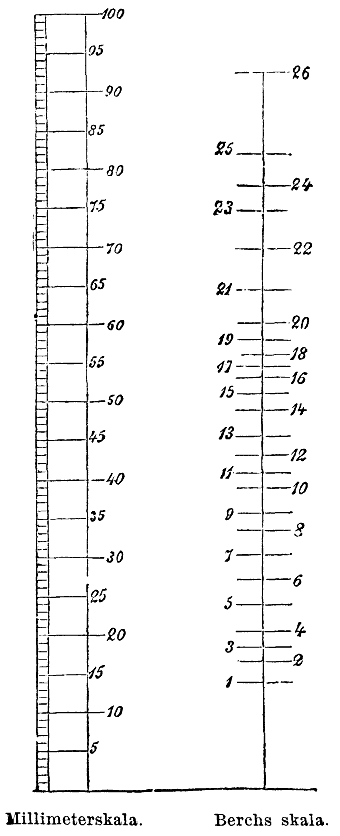 The lengthscale by Carl Reinhold Berch used for Swedish Category:medals